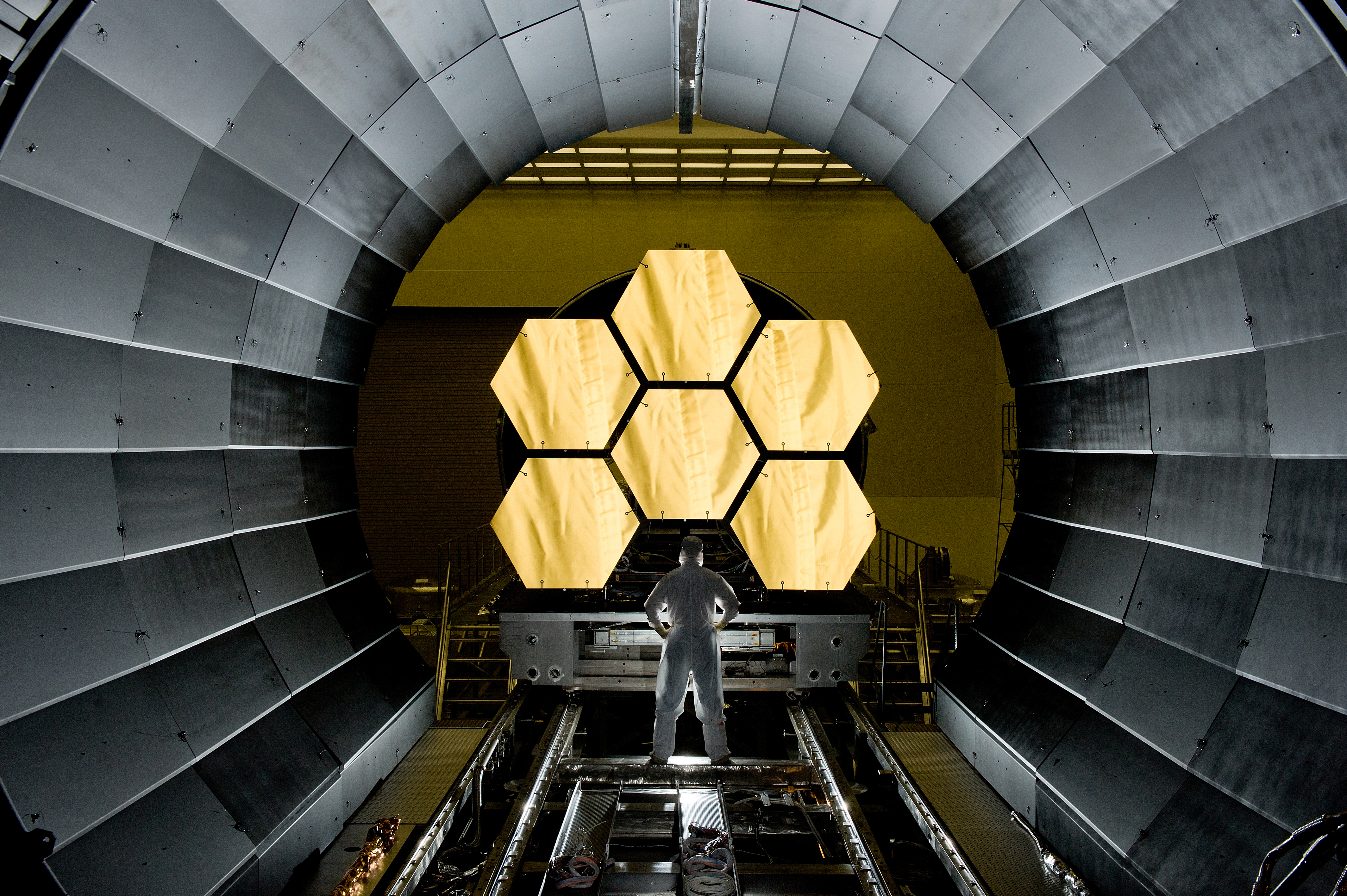 NASA engineer Ernie Wright looks on as the first six flight ready James Webb Space Telescope's primary mirror segments are prepped to begin final cryogenic testing at NASA's Marshall Space Flight Center.